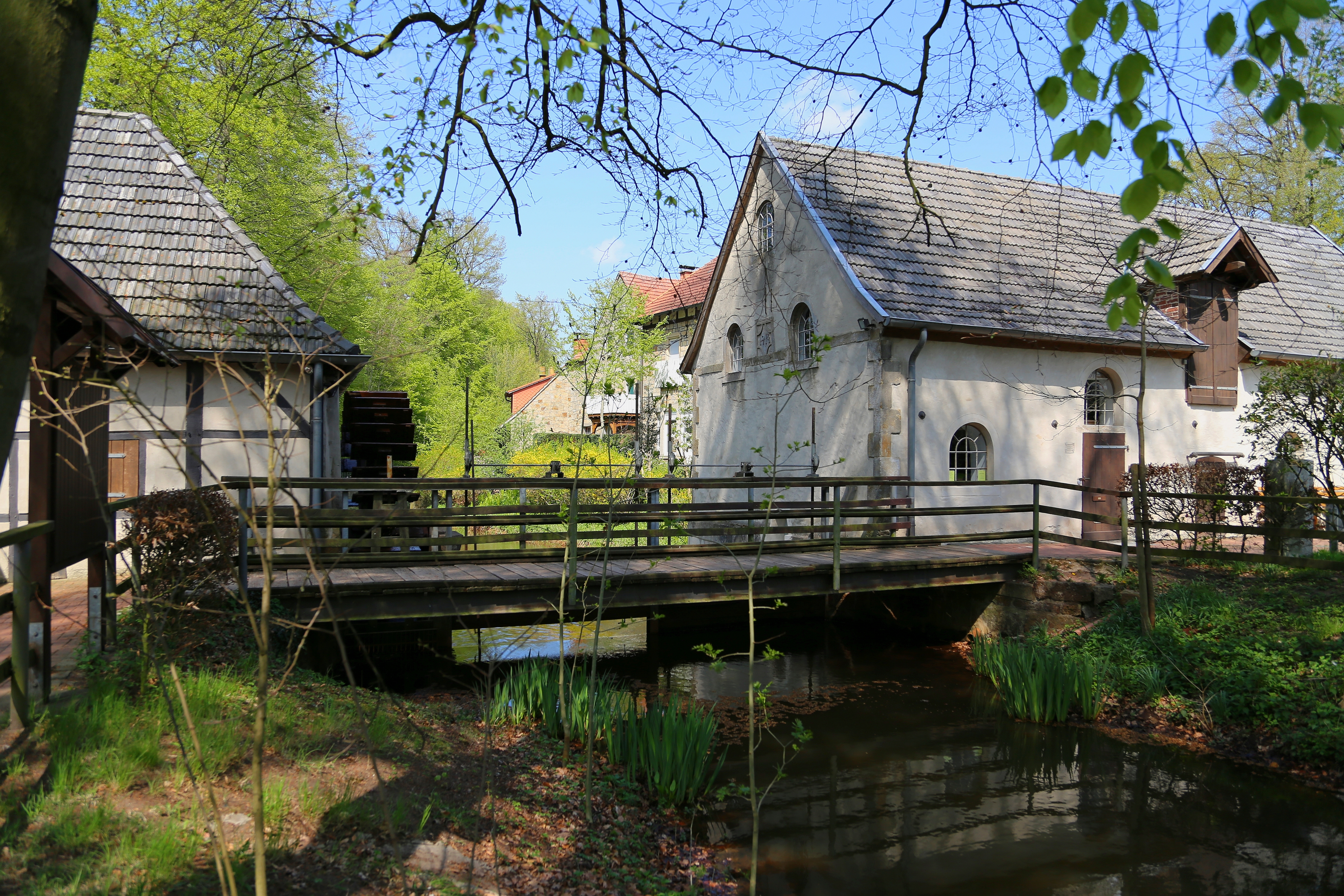 Knollmann's Mill (Knollmanns Mühle), a water- and sawmill in Hörstel, Kreis Steinfurt, North Rhine-Westphalia, Germany.